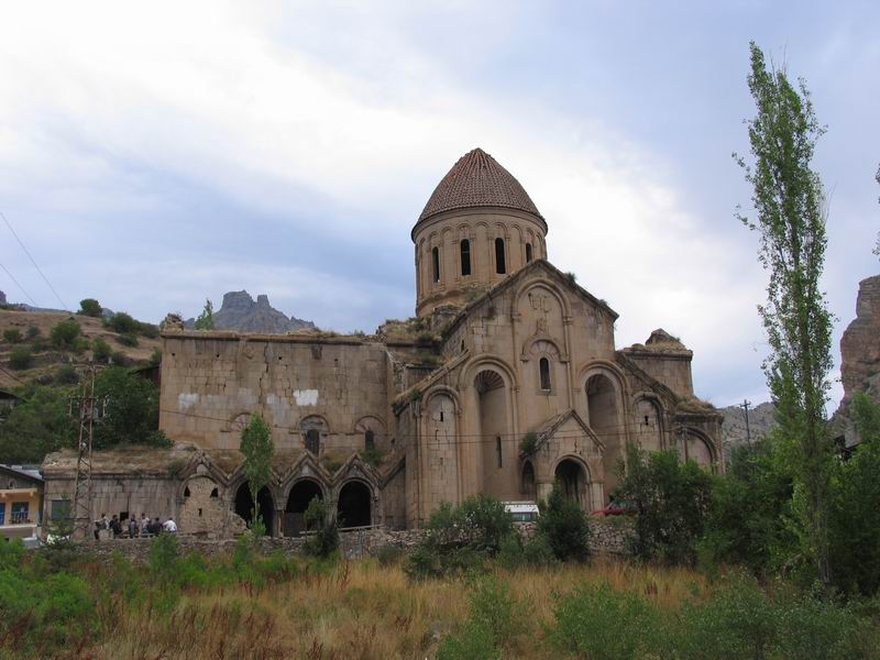 Church of St. John the Baptist, south facade, Oshki, Turkey